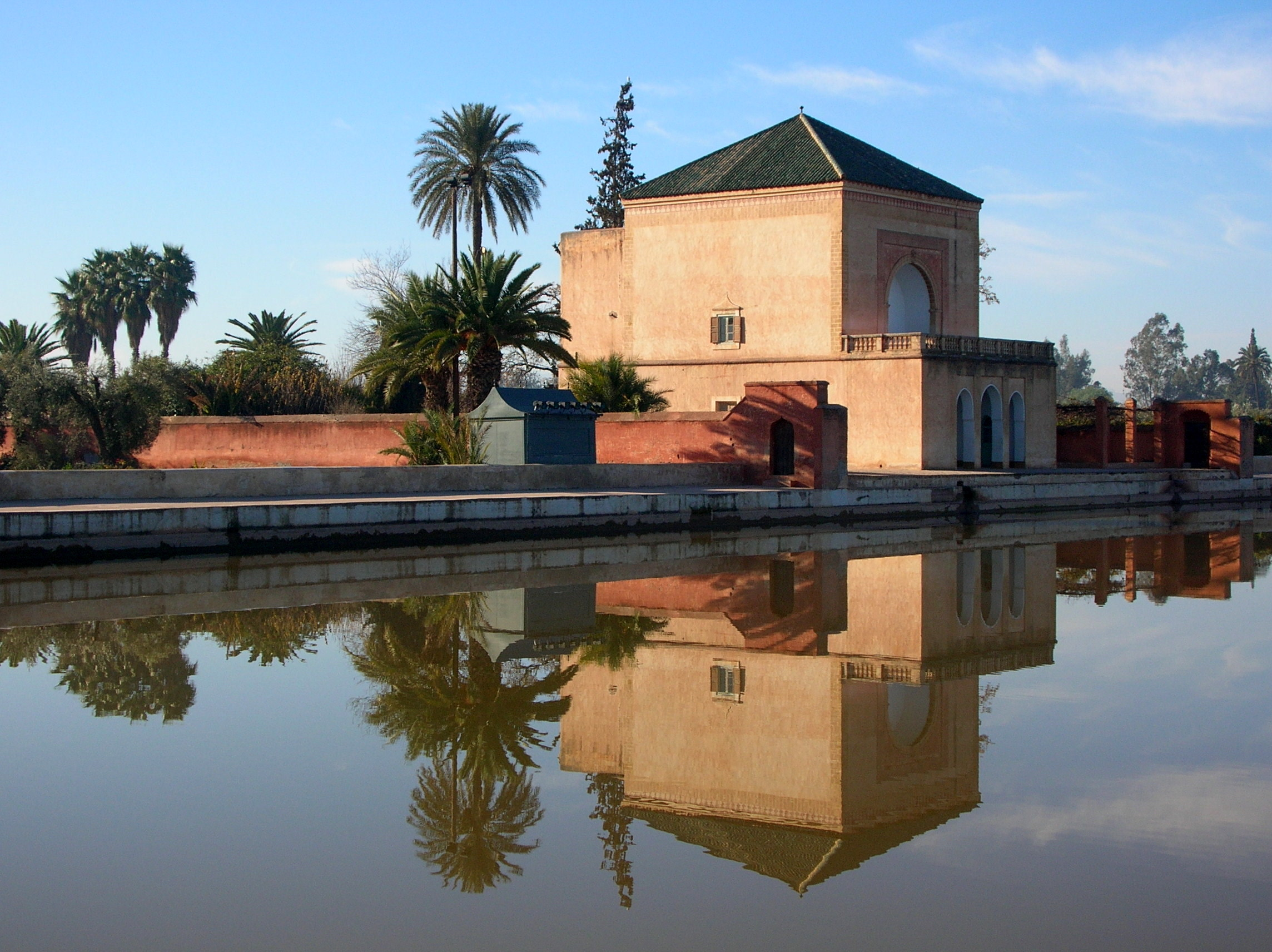 Menara gardens pavillion, Marrakech, Morocco